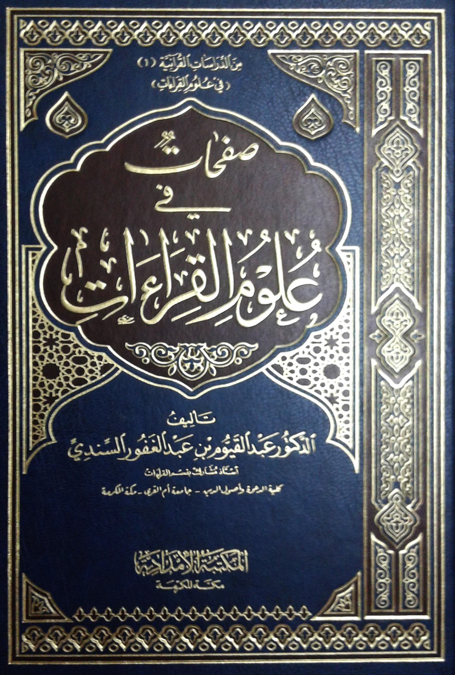 غلاف كتاب صفحات في علوم القراءات